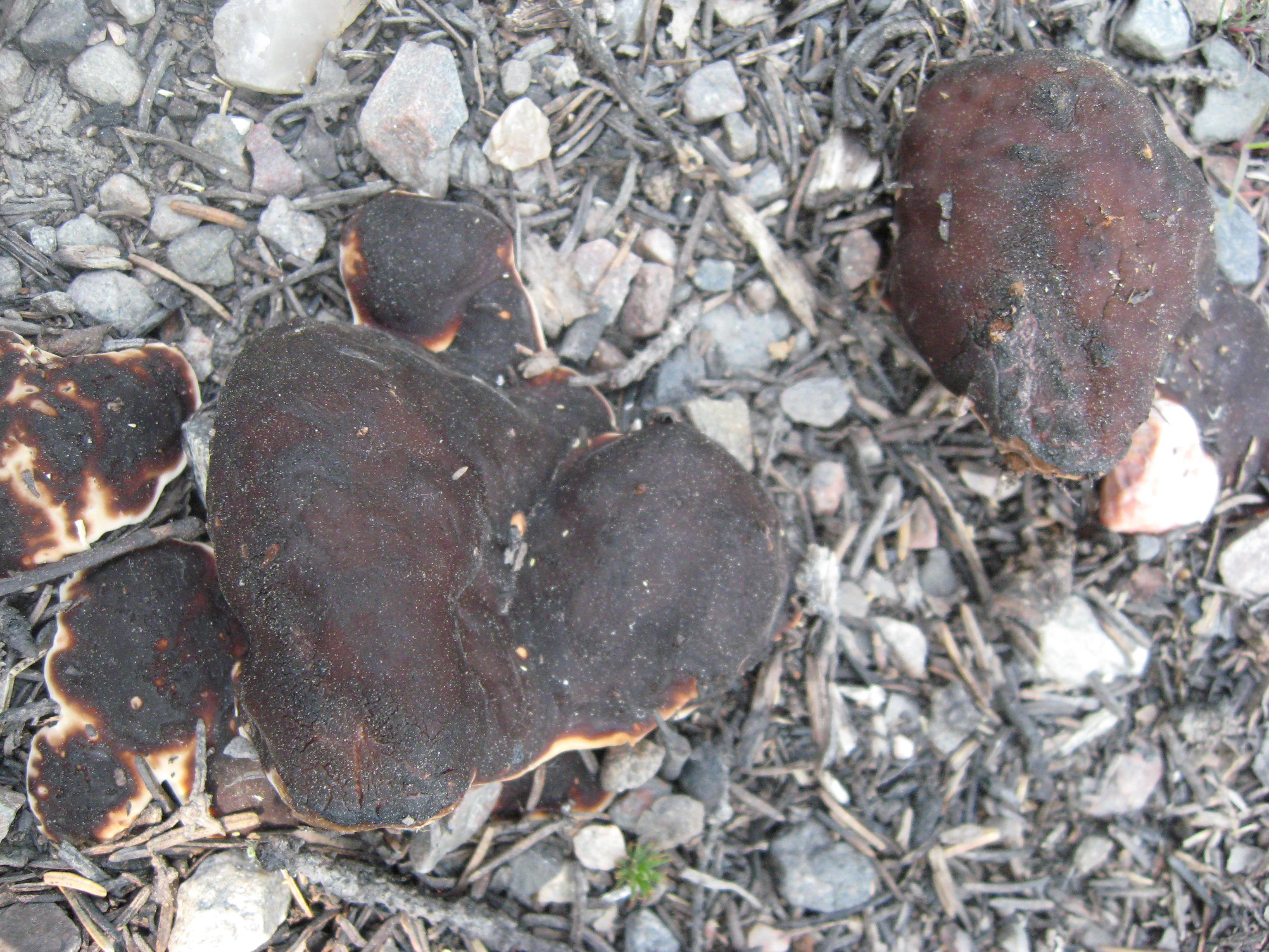 The pine firefungus, species Rhizina undulata Fr. Photographed in a burn-site near La Ronge, Northern Saskatchewan.